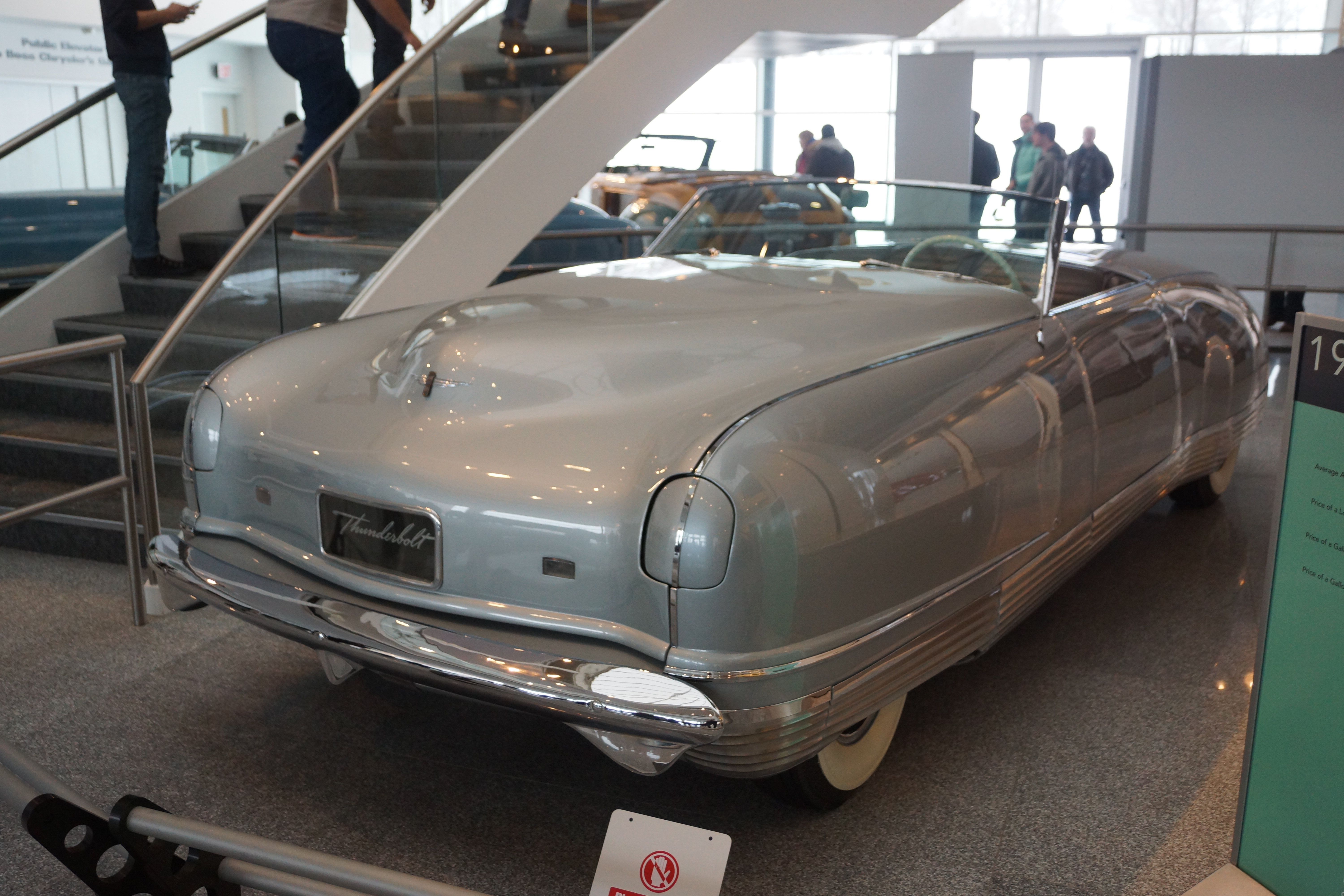 Click here for more car pictures at my Flickr site. Or here for my Car Crazy Tumblr site. Back on November 4th, Hemming's Blog posted an article about the closing of the Walter P. Chrysler Museum . I had missed a couple other opportunities with the WPC Club and others to get into the museum, after it had closed to the public. I did not want to regret missing this last chance to see all of the vehicles before being spread out to other facilities. I trekked from Western Minnesota to Eastern Michigan during Winter Storm Decima. I missed the worst parts of the storm, but still had to endure the aftermath winds, sub zero temperatures and a lake effect snow storm. The trip was difficult, but well worth it. I got to see several Chrysler Corporation concept and show cars that I had only seen pictures of before. There were several clever interactive displays demonstrating various innovations over the years. Since it was the last chance, I duplicated several shots using different camera settings to see what produced better results. I wish I had invested in a strobe light diffuser for all of those indoor pictures. I have not had much experience or success in the past with indoor car images.